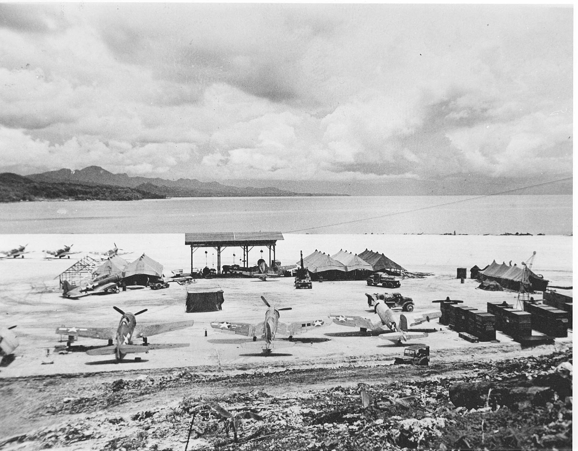 Vella Lavella airfield in the solomons on 10 December 1943. Visible U.S. Marine Corps Vought F4U-1 Corsair aircraft of Marine fighter squadrons VMF-123 and VMF-124, Grumman F6F-3 Hellcats, a Douglas SBD Dauntless, and RNZAF Curtiss Kittyhawk Mk.IV (P-40F) on the primitive runway at Vella Lavella in the Solomon Islands, which was seized in the summer of 1943 and served as a base of operations to support landings by Allied forces in the Treasury Islands and at Cape Torokina, Bougainville. The swift advance of Allied forces in the South Pacific soon bypassed Vella Lavella and the airfield ceased operations in September 1944, less than a year after the first aircraft arrived.